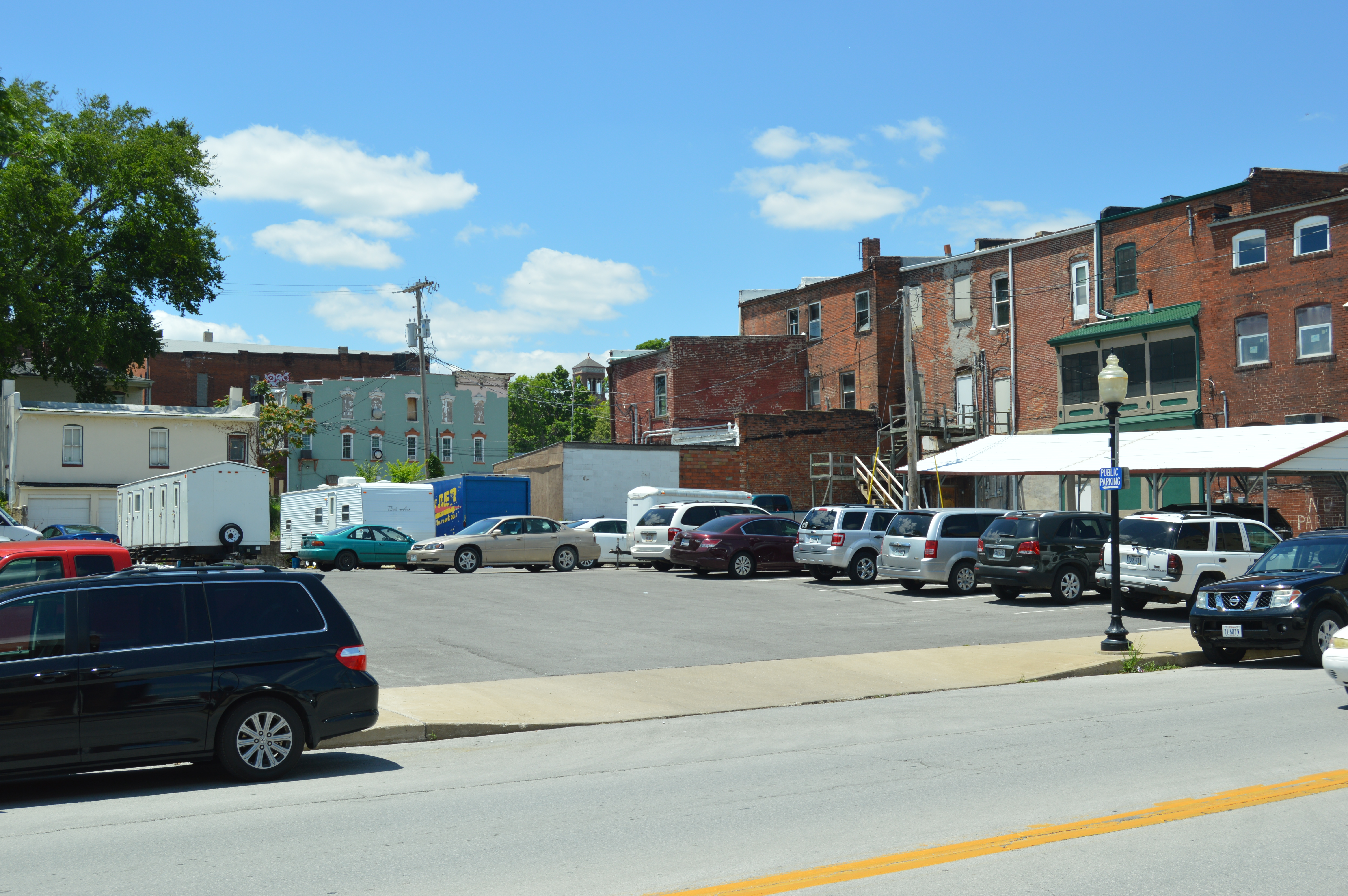 Overview of a parking lot located at 113-115 S. Third Street (Route 79) in Hannibal, Missouri, United States. This was formerly the site of the Green Double House; listed on the National Register of Historic Places in 1986, it has not yet been delisted despite its destruction.